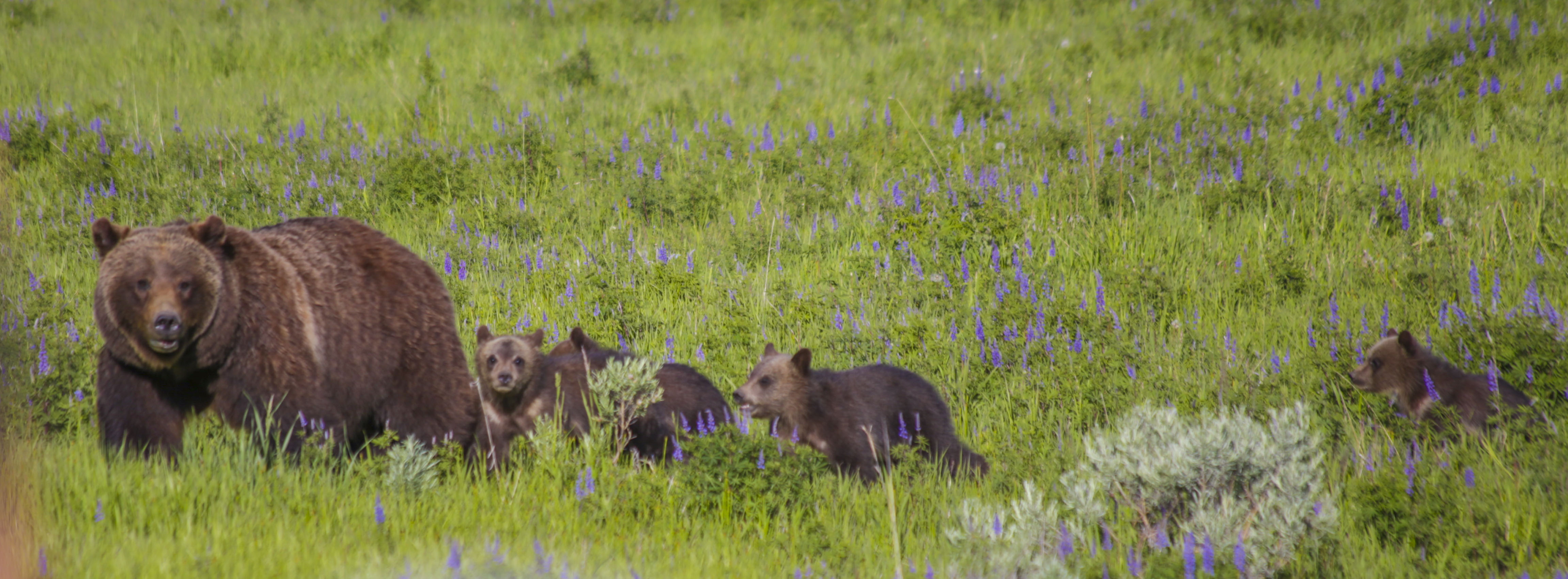 399 with her 4 cubs around 7:30pm on June 19, 2020. She was near the river by Signal Mountain Lodge.